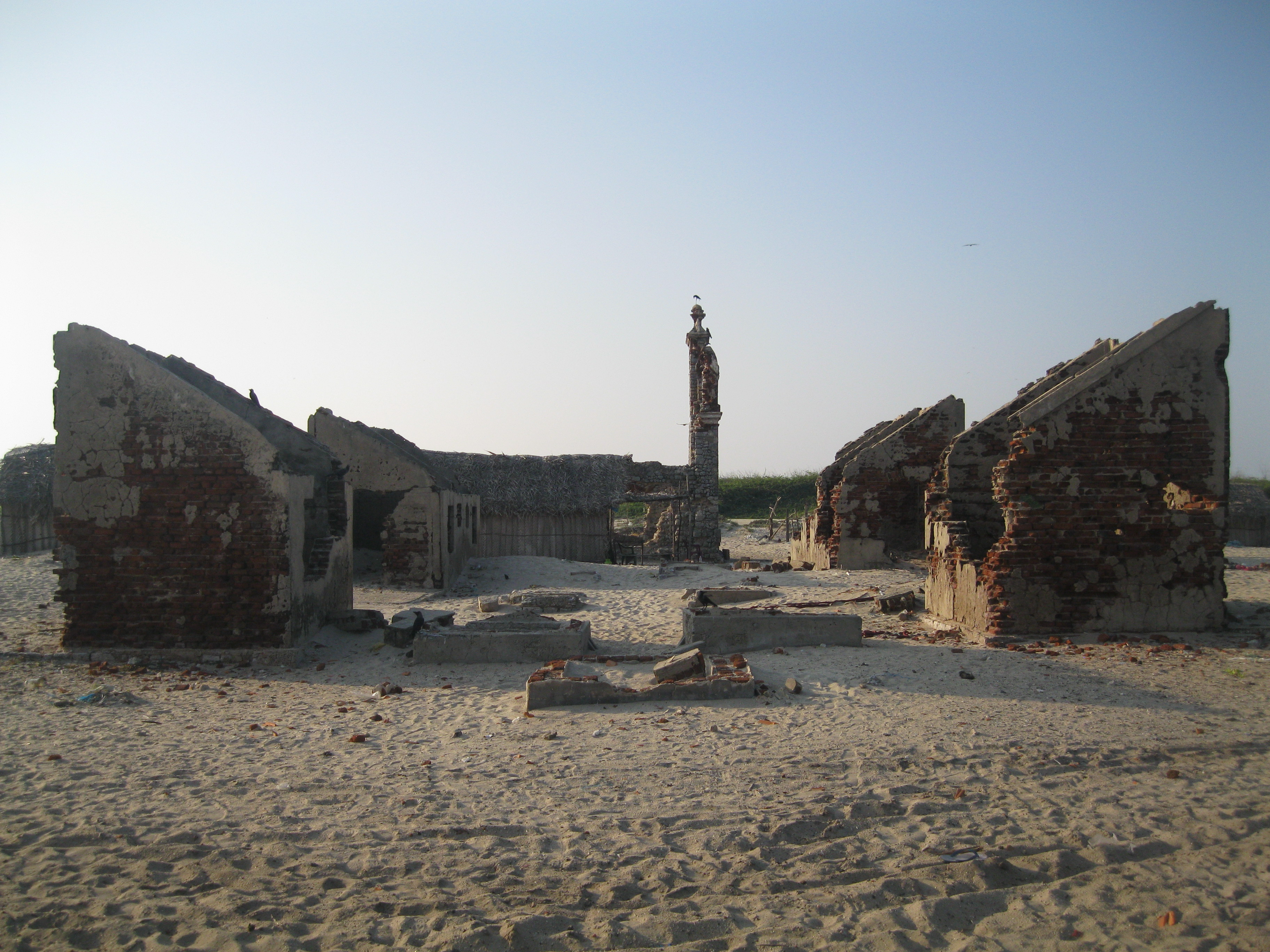 dhanushkodi buildings destroyed by 1964 cyclone.